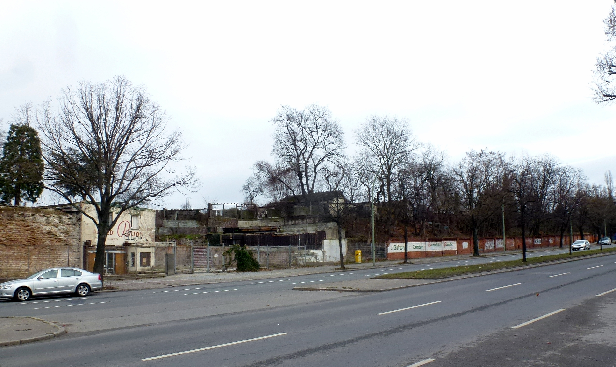 Berlin-Westend Spandauer Damm, ruins of former brewery "Spandauer Bock"